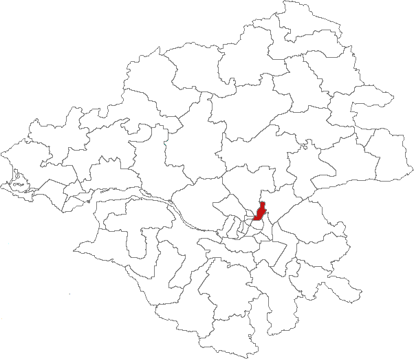 Map of canton of France : Canton de Nantes-8, Loire-Atlantique, France